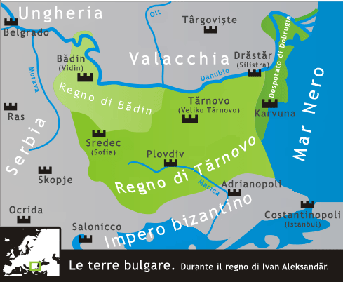 Italian version of the map of Bulgarian lands under the rule of Tsar Ivan Alexander